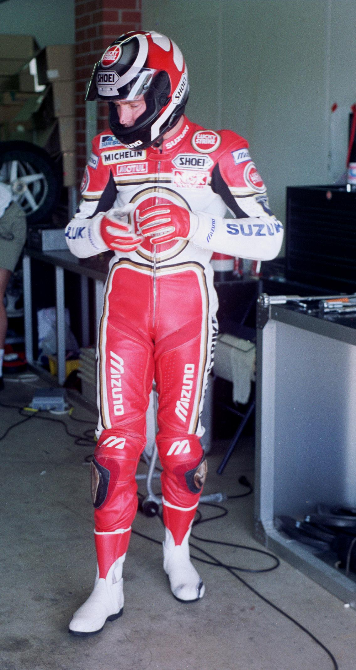 Peter Goddard, pictured during his only appearance for the Lucky Strike Suzuki team at the 1993 Australian Grand Prix.